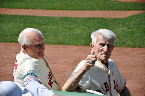 Johnny Pesky and Bobby Doerr at Fenway's 100th Anniversary Game, April 20, 2012